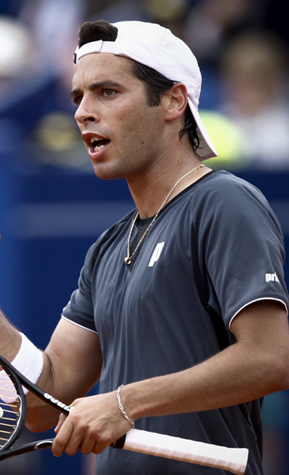 Albert Montañés at 2009 Estoril Open, Oeiras, Portugal